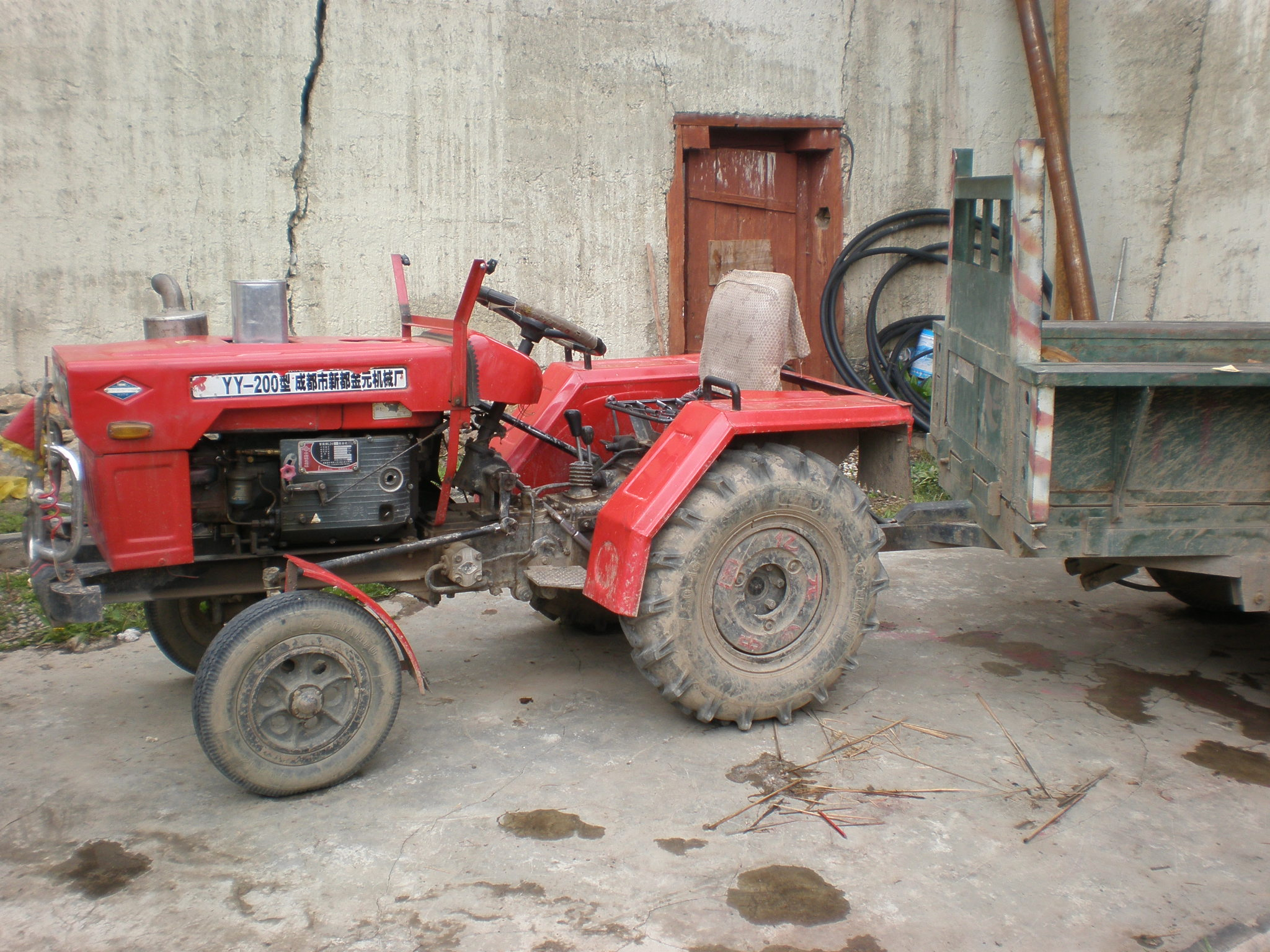 A YY-200 tractor in a village near Dali, Yunnan.